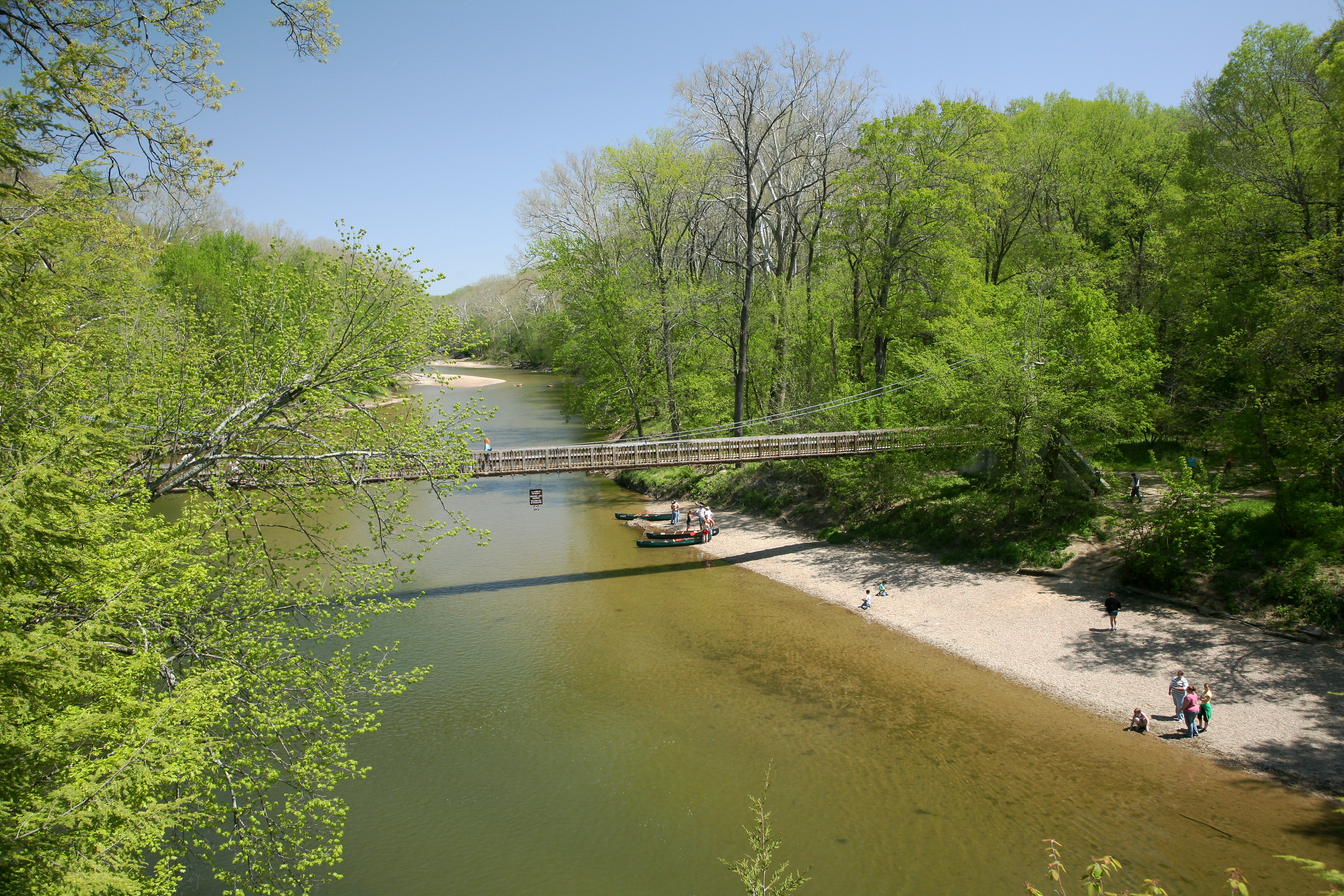 Suspension bridge across Sugar Creek, Turkey Run State Park, Indiana, USA